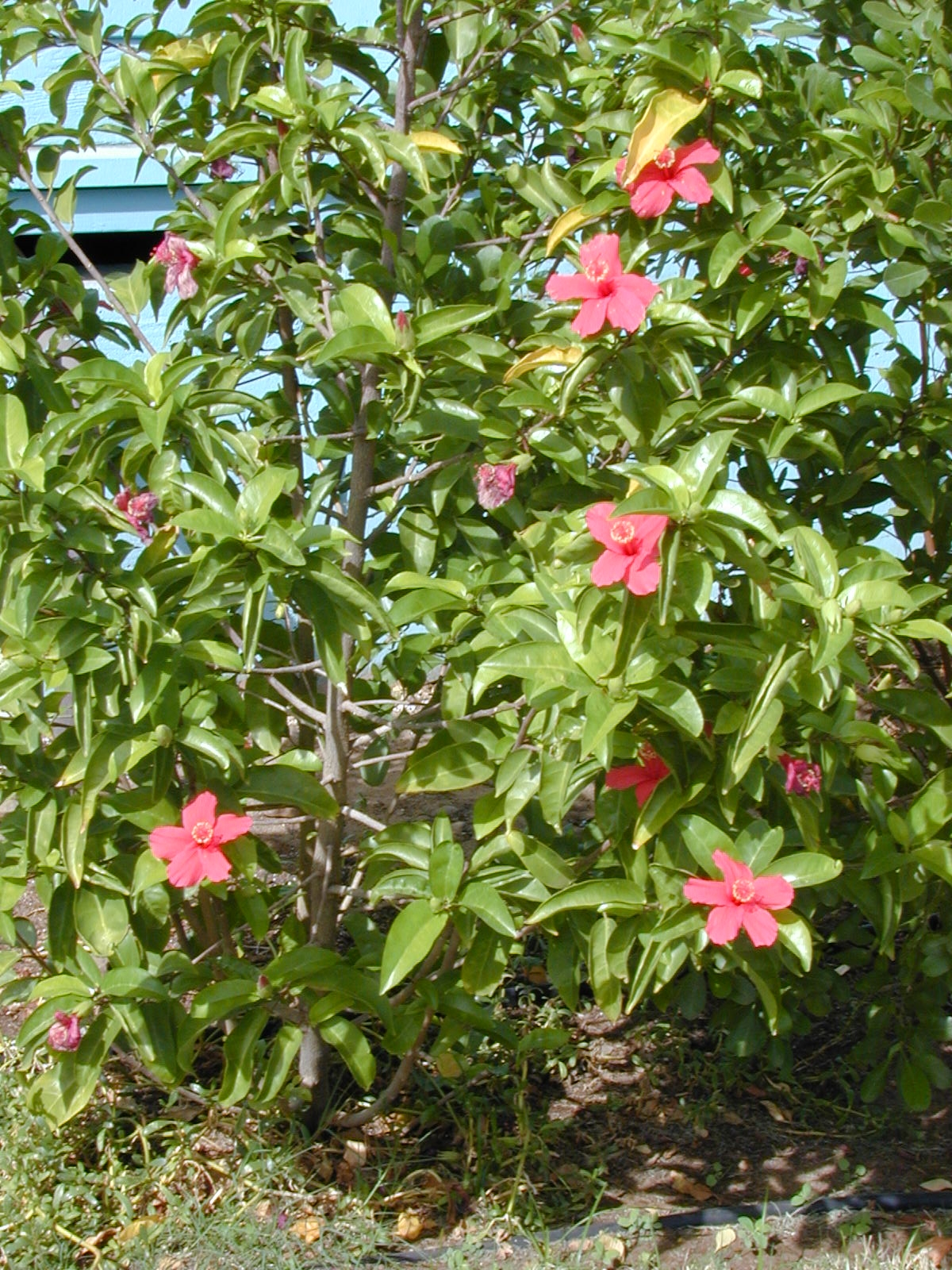 Hibiscus kokio subsp. kokio (habit flowers). Location: Maui, Kalepolepo